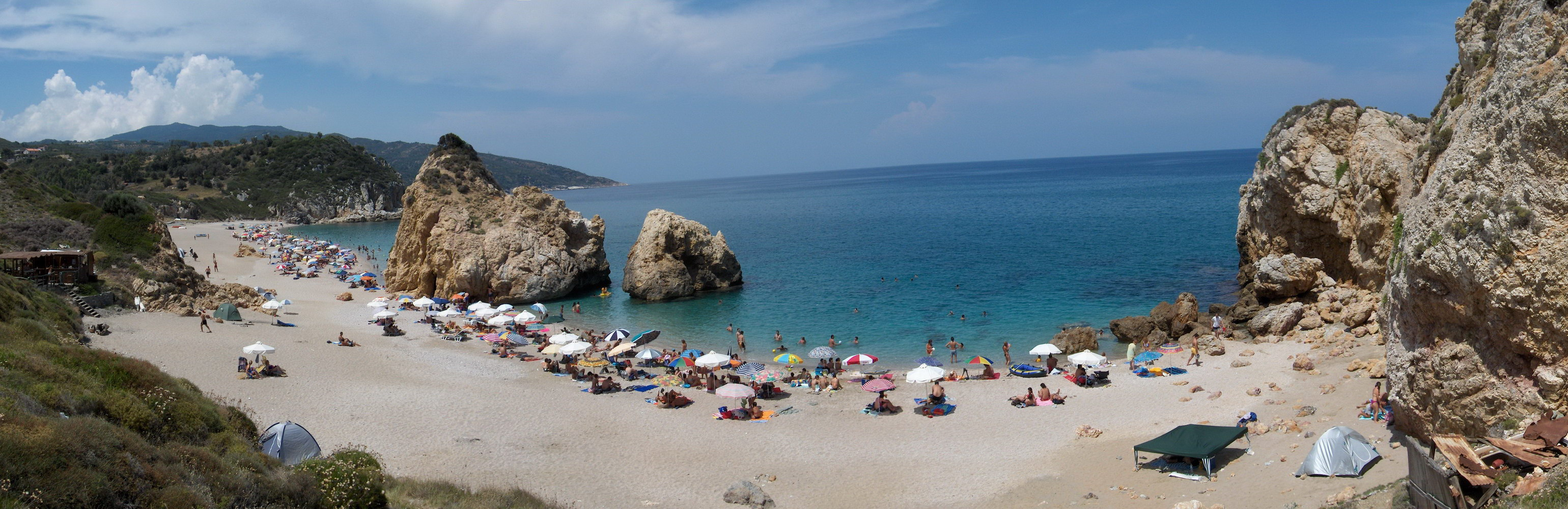 Potistika beach, Xinovrysi, Pelion, Greece